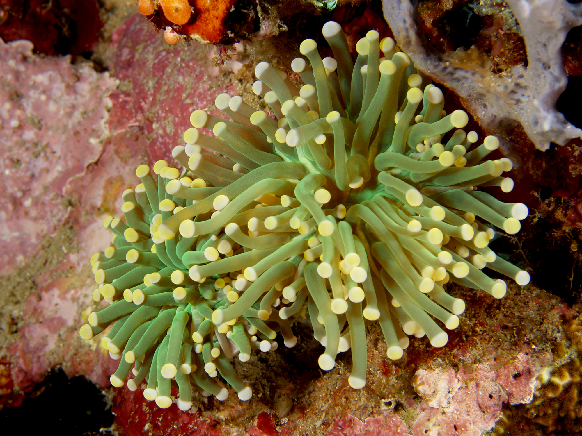 Euphyllia glabrescens (Hard coral) with polyps extended